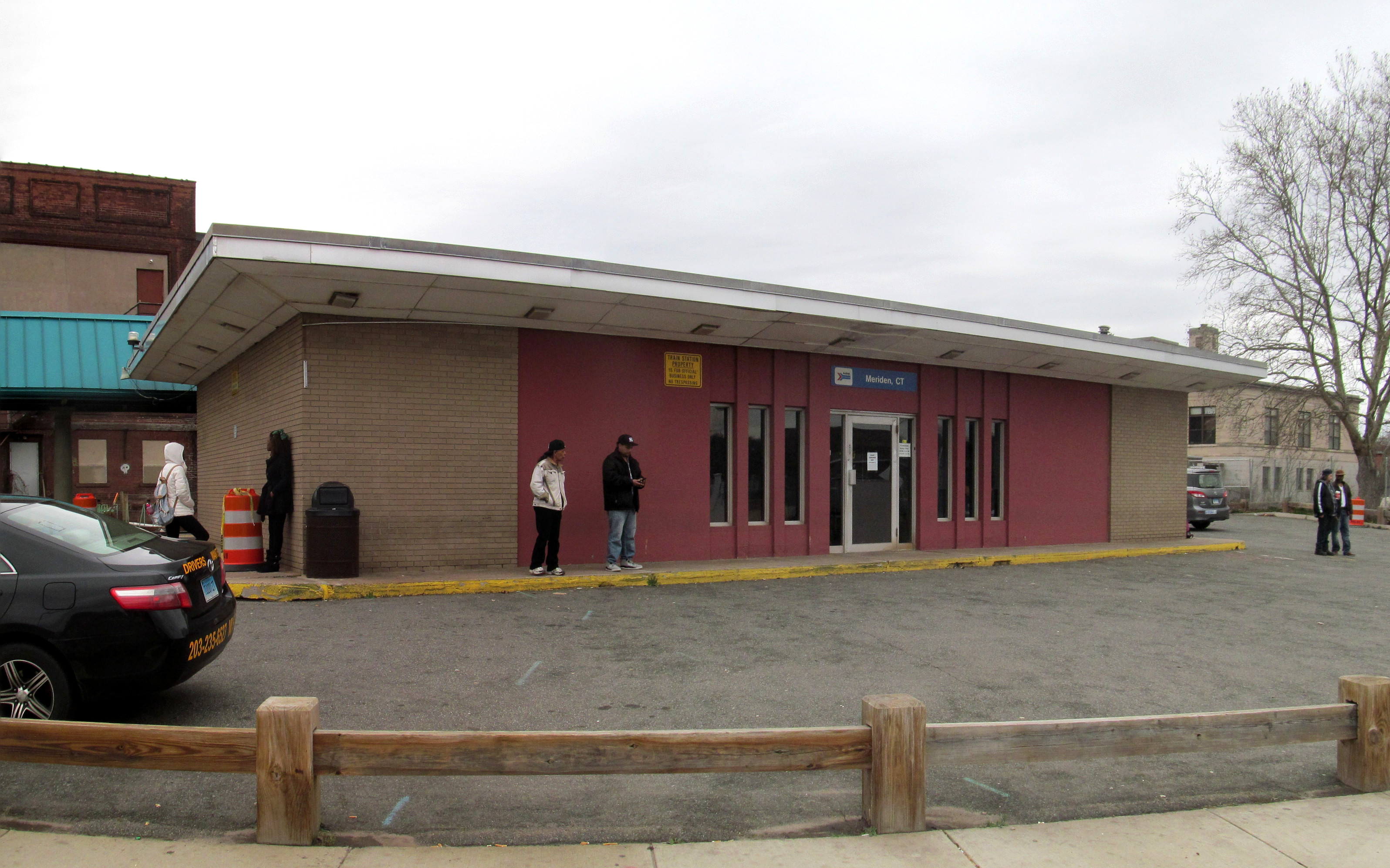 Meriden station in December 2015